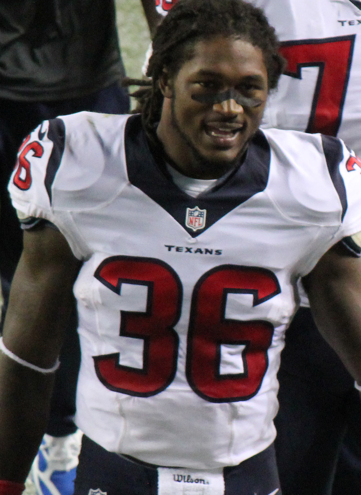 D. J. Swearinger, a player on the National Football League.